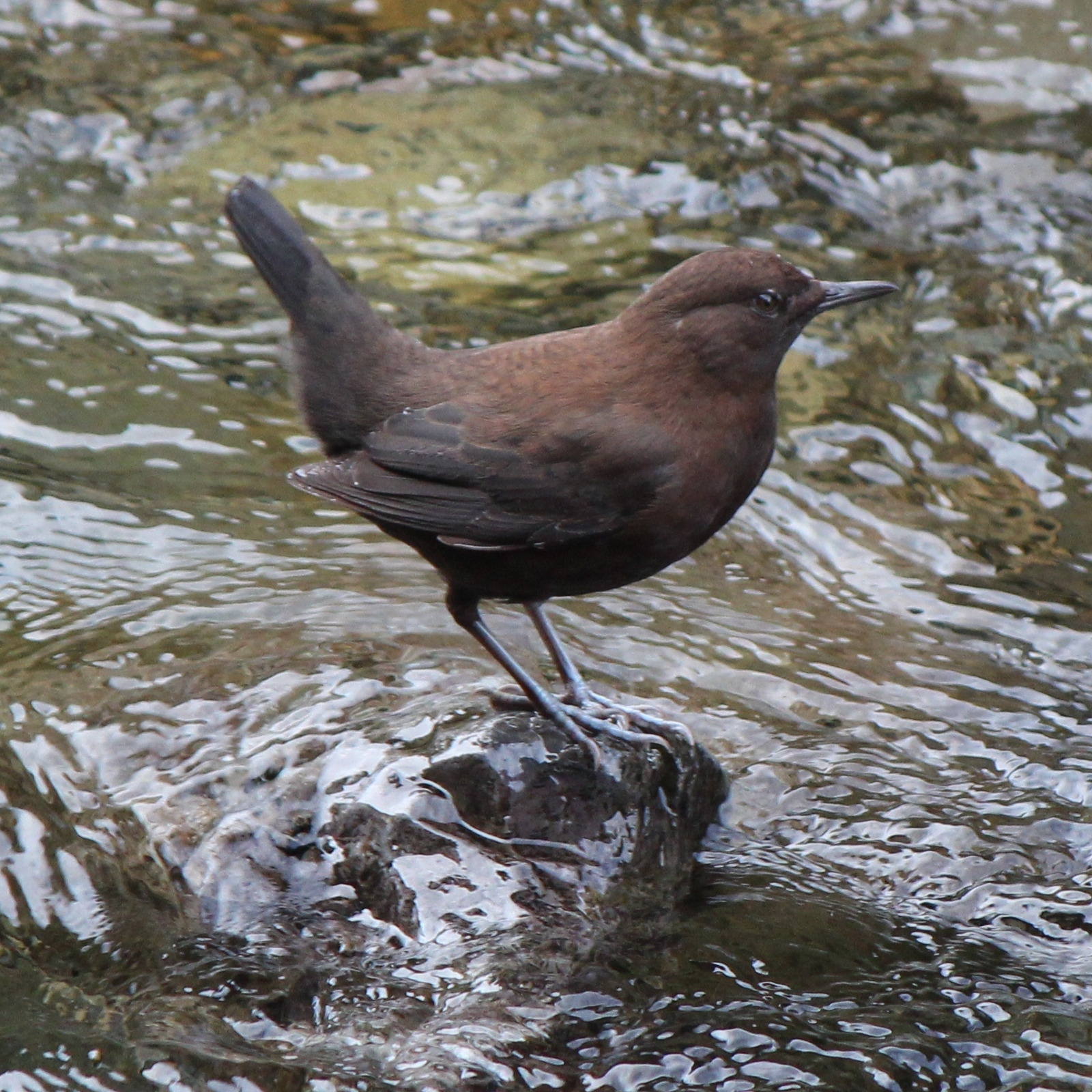 Brown Dipper (Cinclus pallasii pallasii Temminck, 1820 ), in Mie prefecture, Japan.